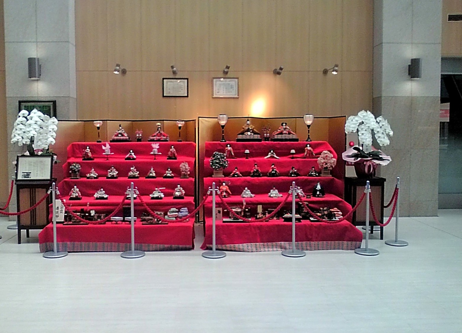 It was taken in Kyushu University Hospital at Hina Doll festival